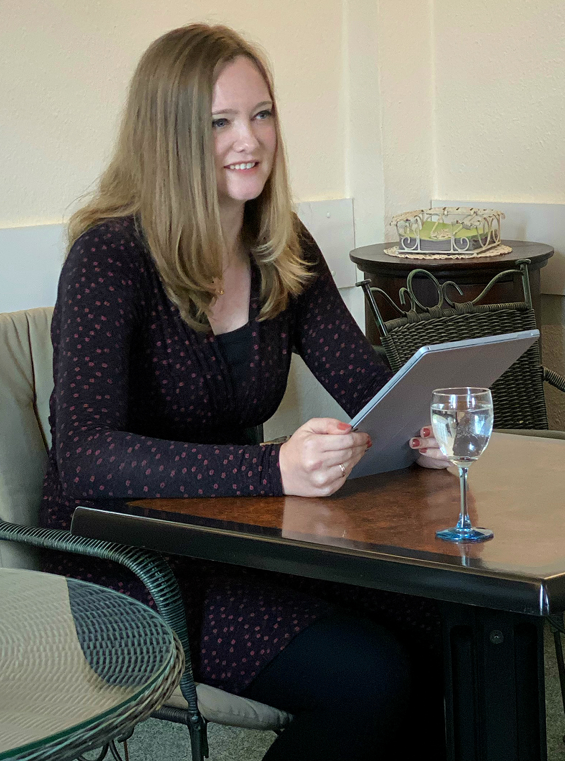 C. R. Scott reading in a café in Wasbek.